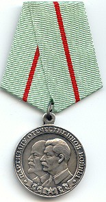 USSR Partisan Medal 1st class From Hebrew Wikipedia: [1]